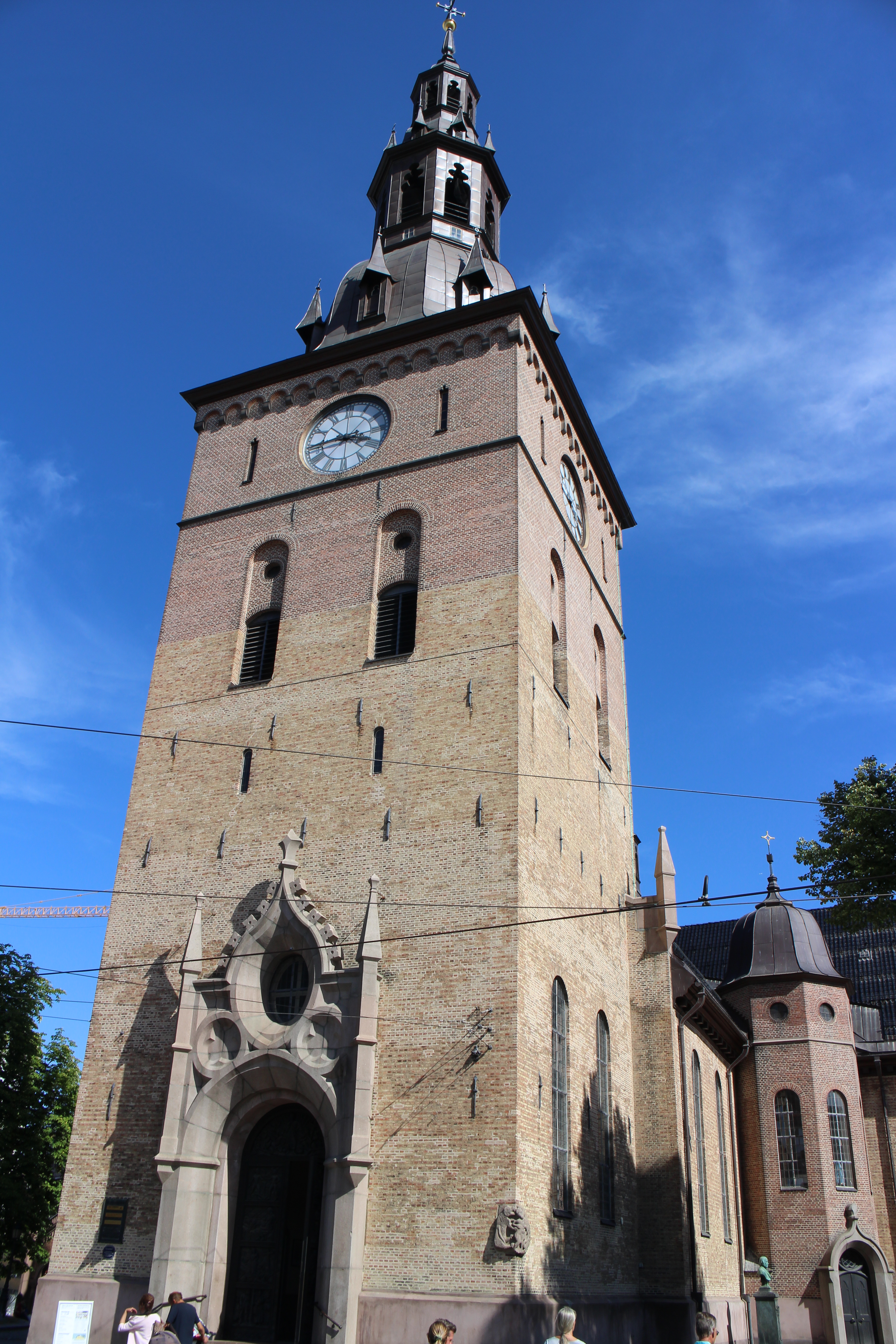 Oslo Domkirke